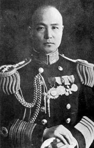 Ch'en Shao-kuan (Chen Shaokuan, Ding Sieu-kuang), Minister of Navy of the Republic of China